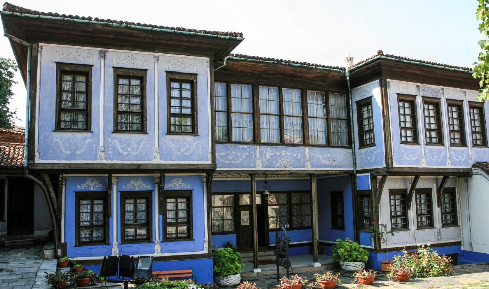 North Facade